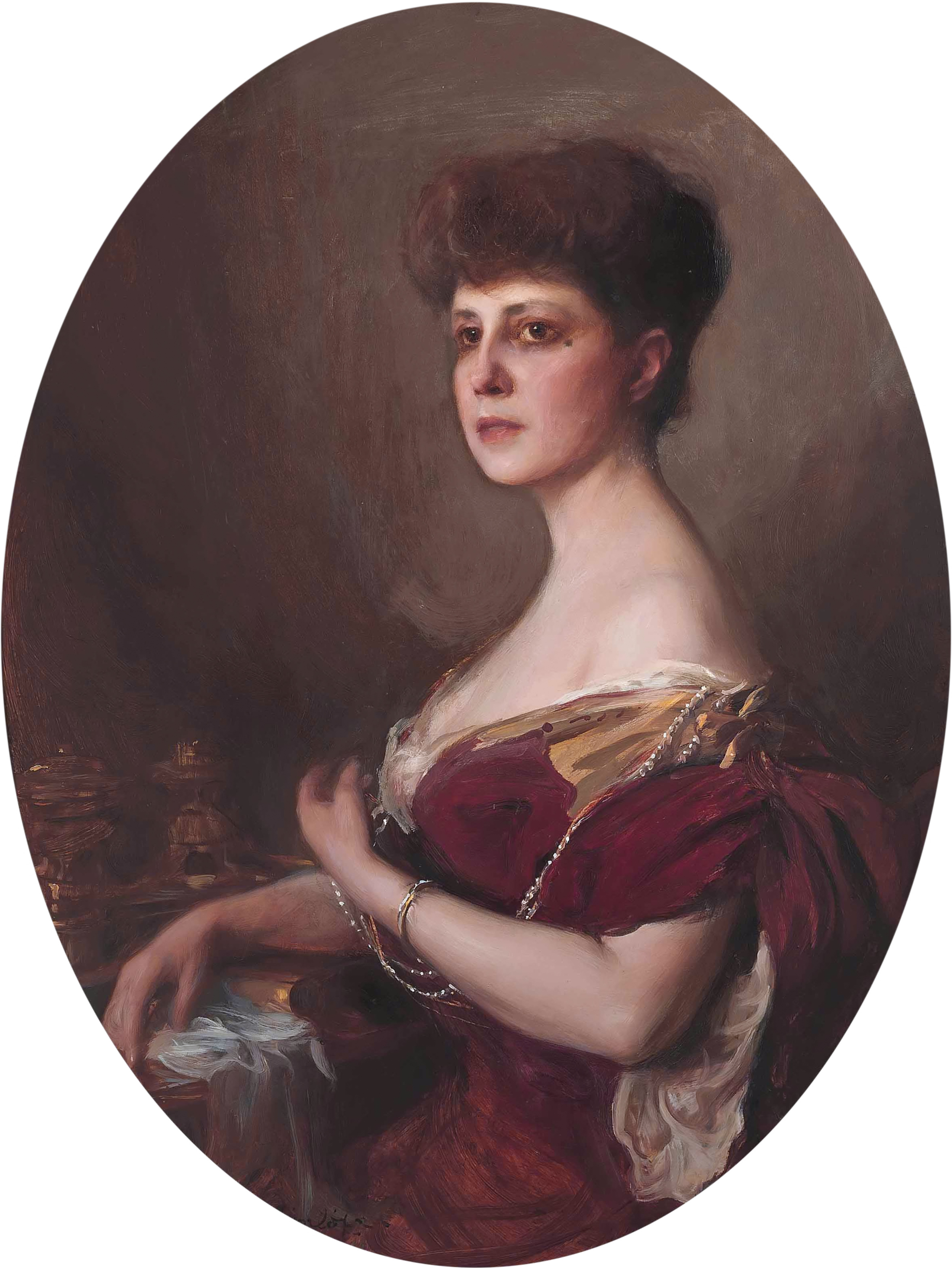 La Comtesse Jean de Castellane, née Mademoiselle Dorothée de Talleyrand Périgord oil on canvas 100.3 x 76.9 cm signed b.l.: László/1905/Paris